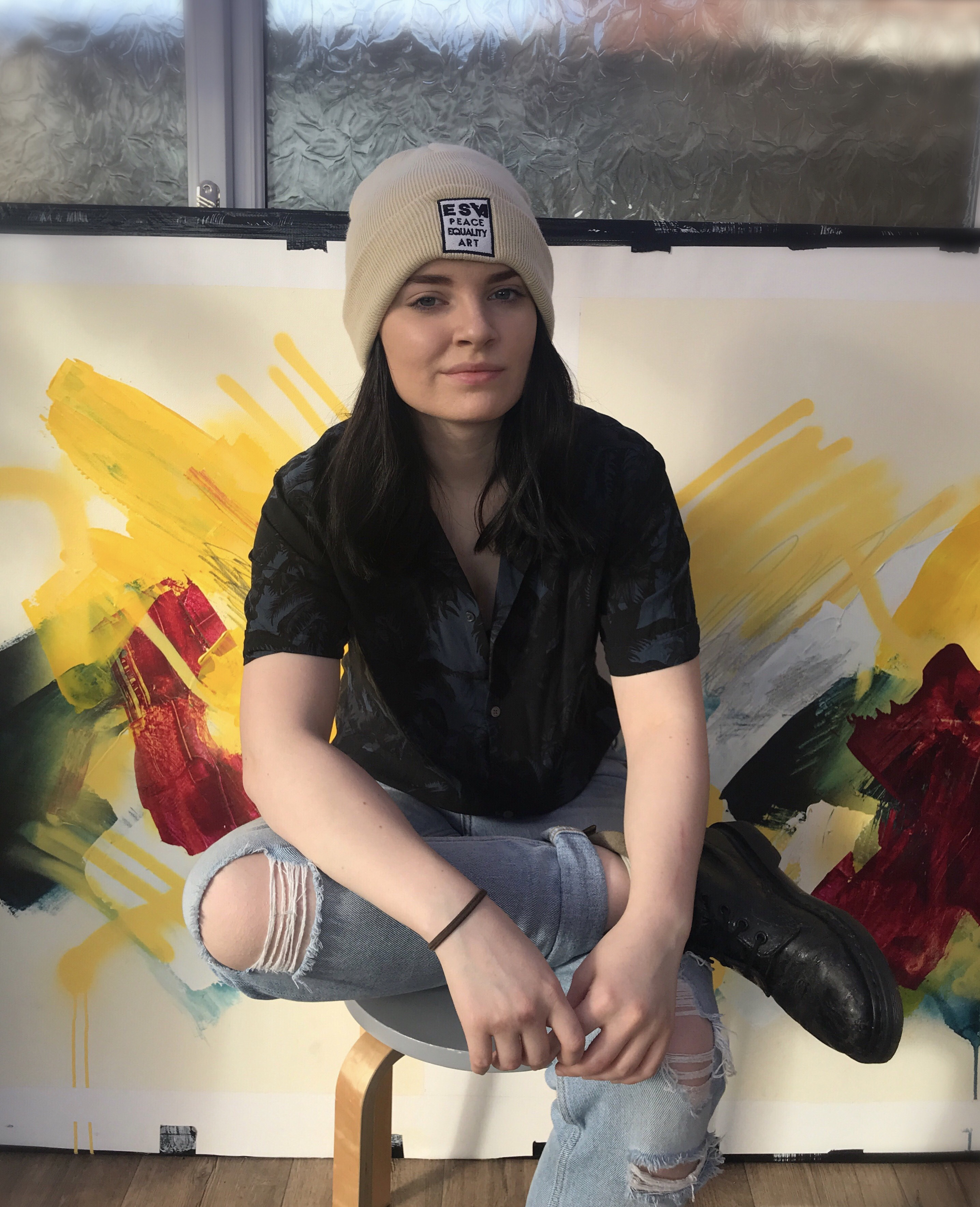 Emily Sarah photographed in 2019.